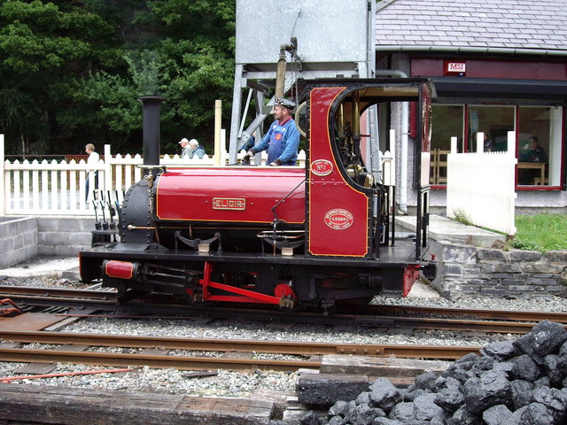 Locomotive taking on water. Narrow gauge railway locomotive 'Elidir' taking on water at Lakeside Station, Llanberis